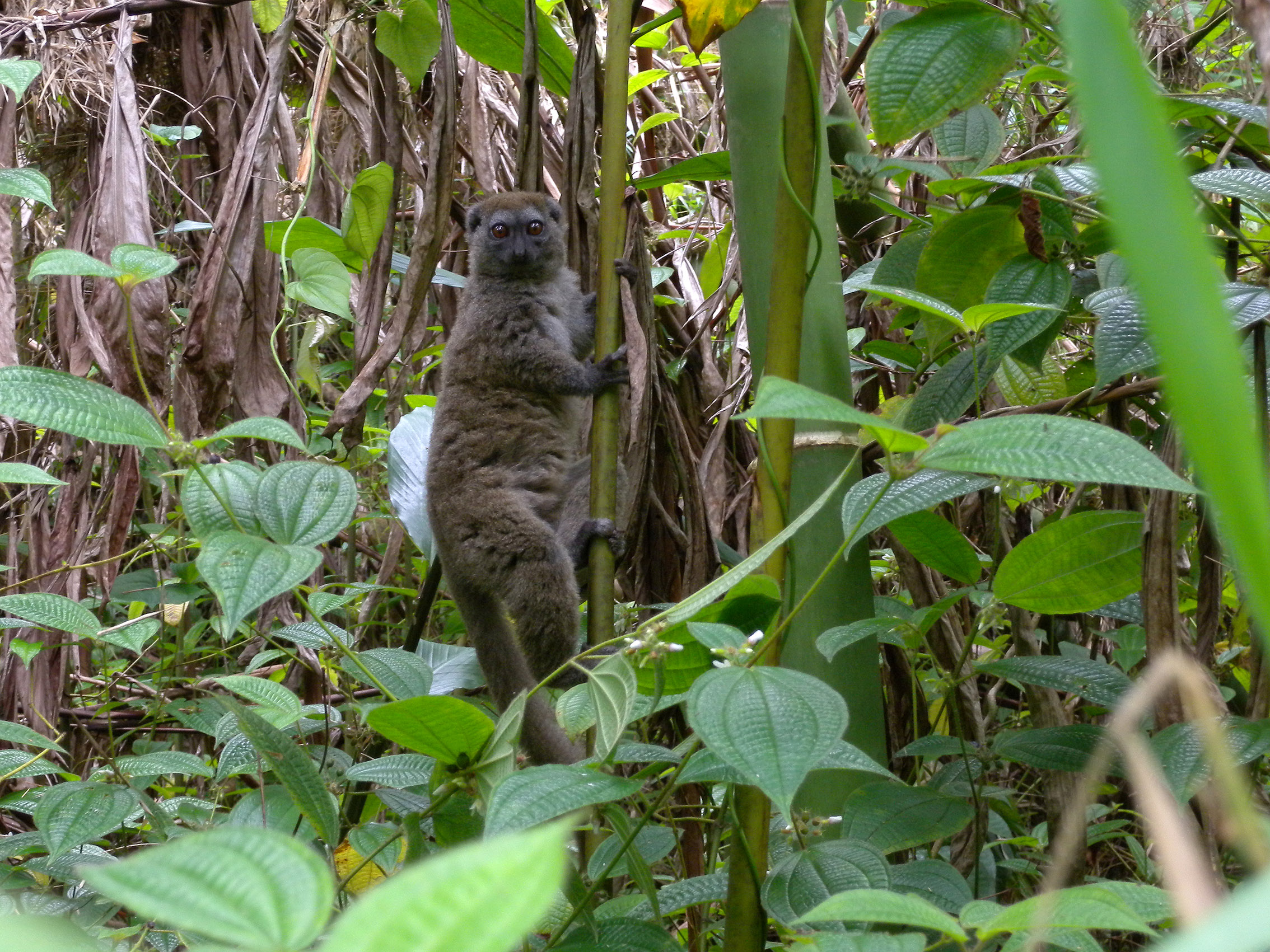 Eastern Lesser Bamboo Lemur, Marojejy National Park, Madagascar.